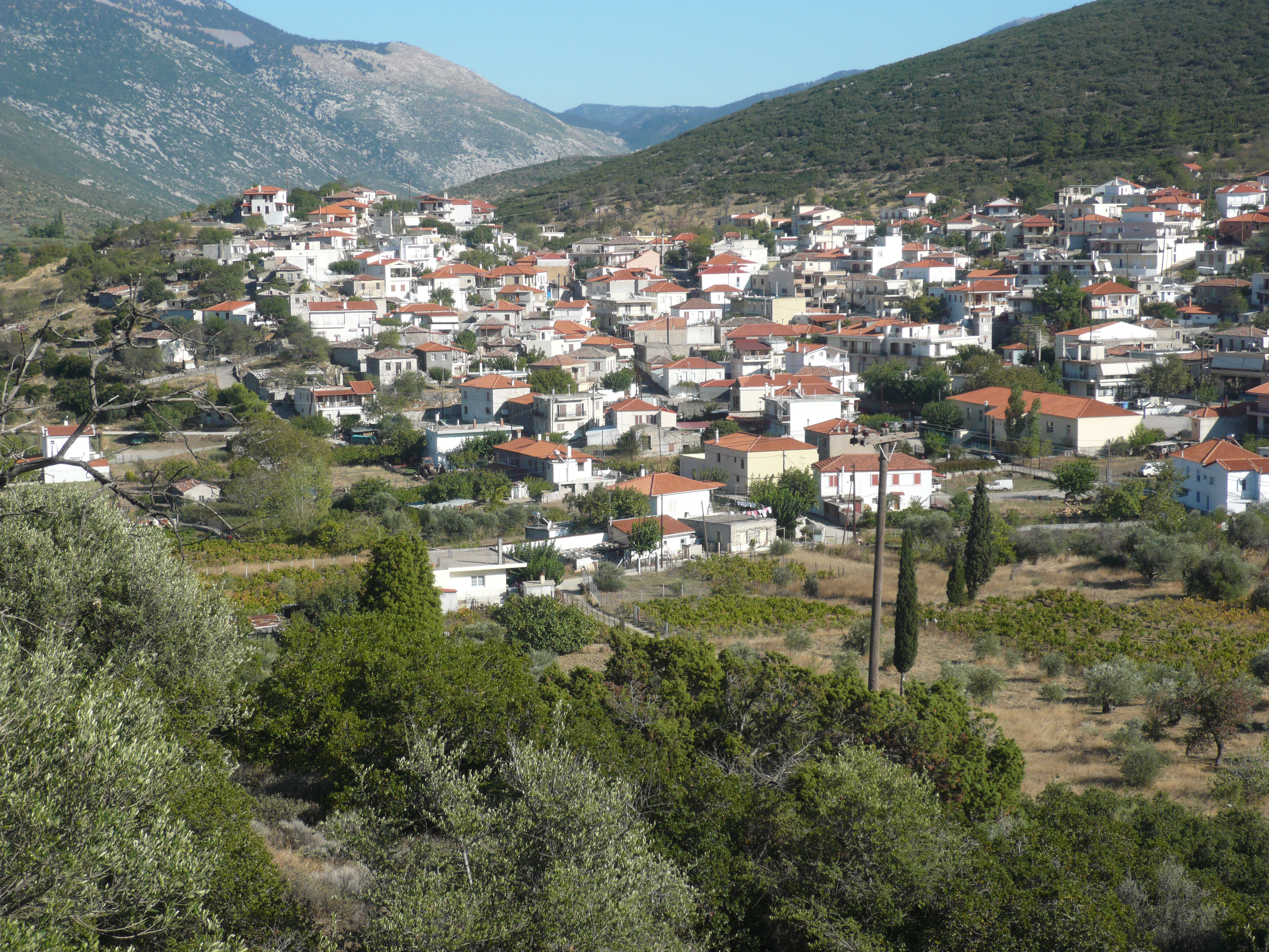 Steiri, greek village in Boeotia Prefecture